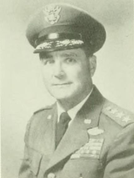 LGEN William W. Momyer, Commander, Air Training Command